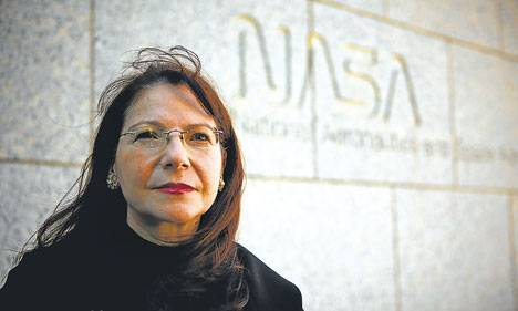 Adriana Ocampo Uria.